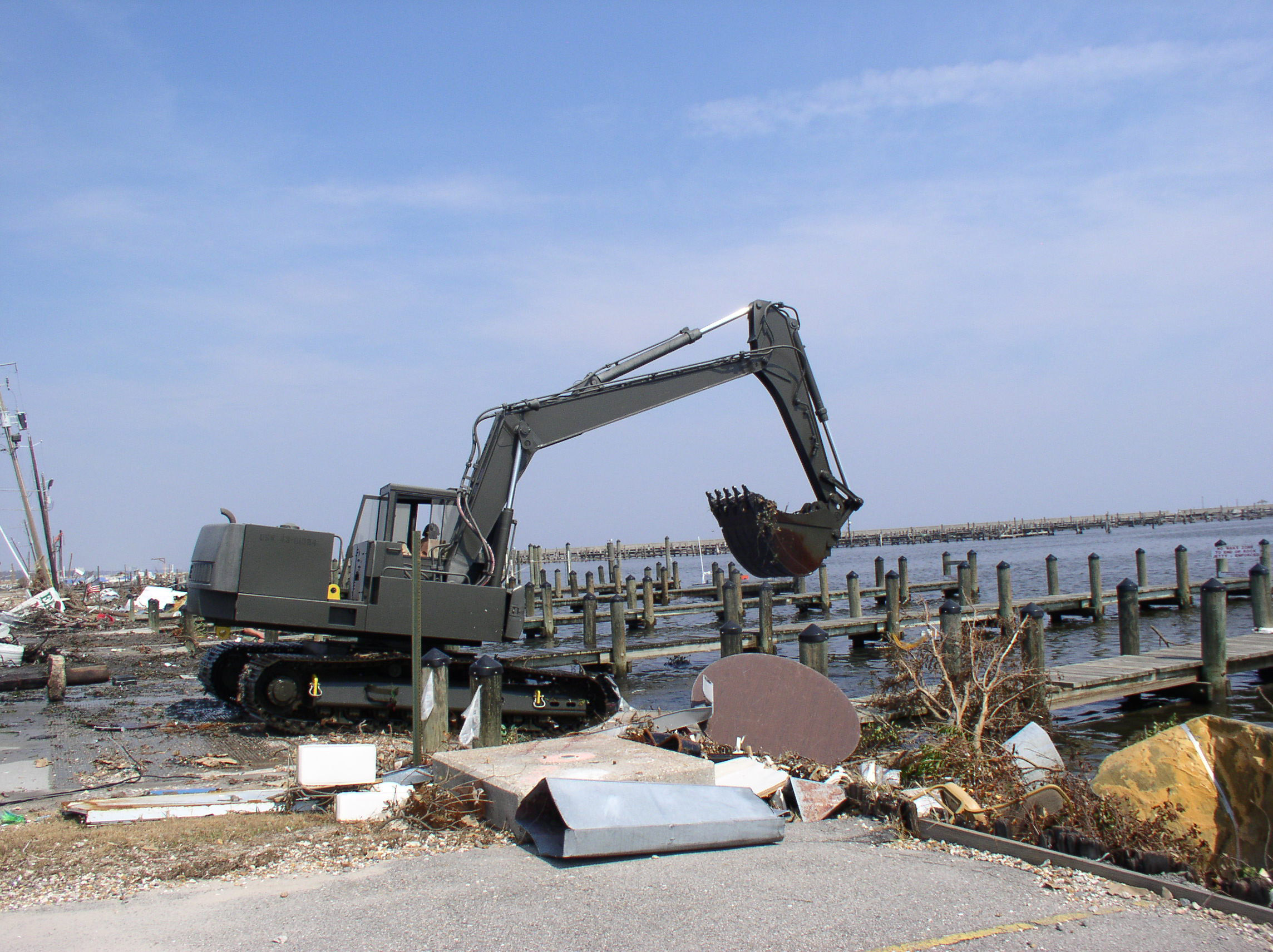 Gulfport, Miss. (Sept. 2, 2005) – A U.S. Navy Seabee uses a track hoe to remove debris from Hurricane Katrina near the marina on board on board Naval Construction Battalion Center (NCBC) Gulfport, Miss. NCBC functions as a support for operating units of the Naval Construction Force. It supports various Naval Mobile Construction battalions, the Naval Construction Training Center and other smaller tenant activities. A Category 4 hurricane, Katrina came ashore on Aug. 29 near the Louisiana bayou town of Buras. U.S. Navy photo (RELEASED)